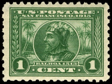 The Spanish explorer of the Panama Canal region is represented by Vasco Nunez de Balboa in the Panama-Pacific Exposition issue. He called the western ocean 'Mar del Sur'.